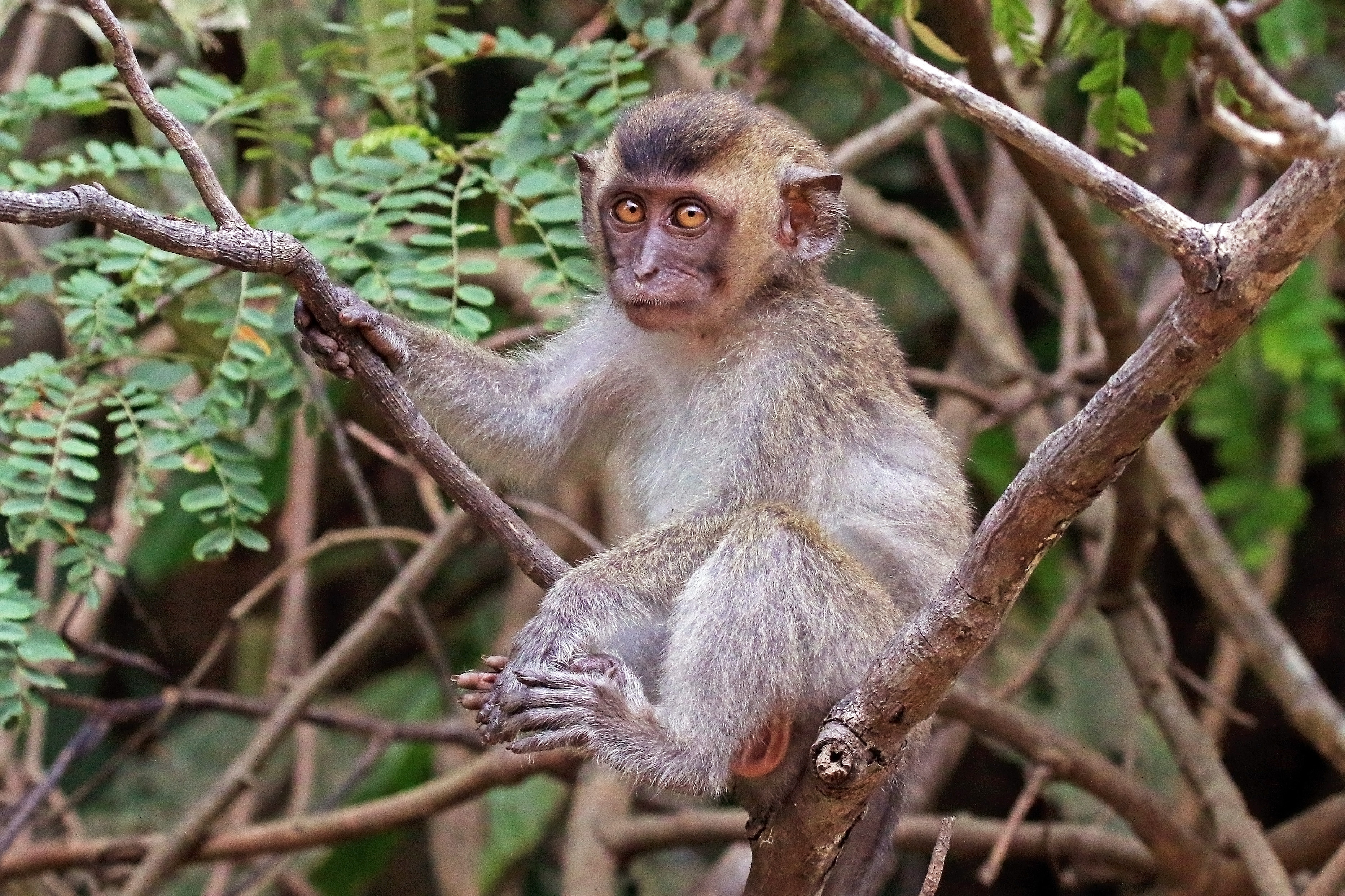 Long-tailed macaque (Macaca fascicularis) juvenile, Kota Kinabatangan River, Borneo